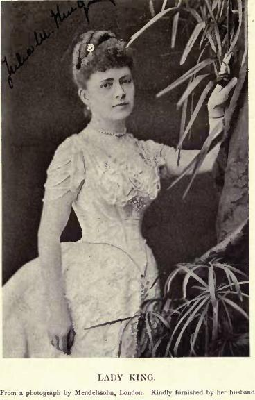 Lady Julie Marie King by Mendelssohn London